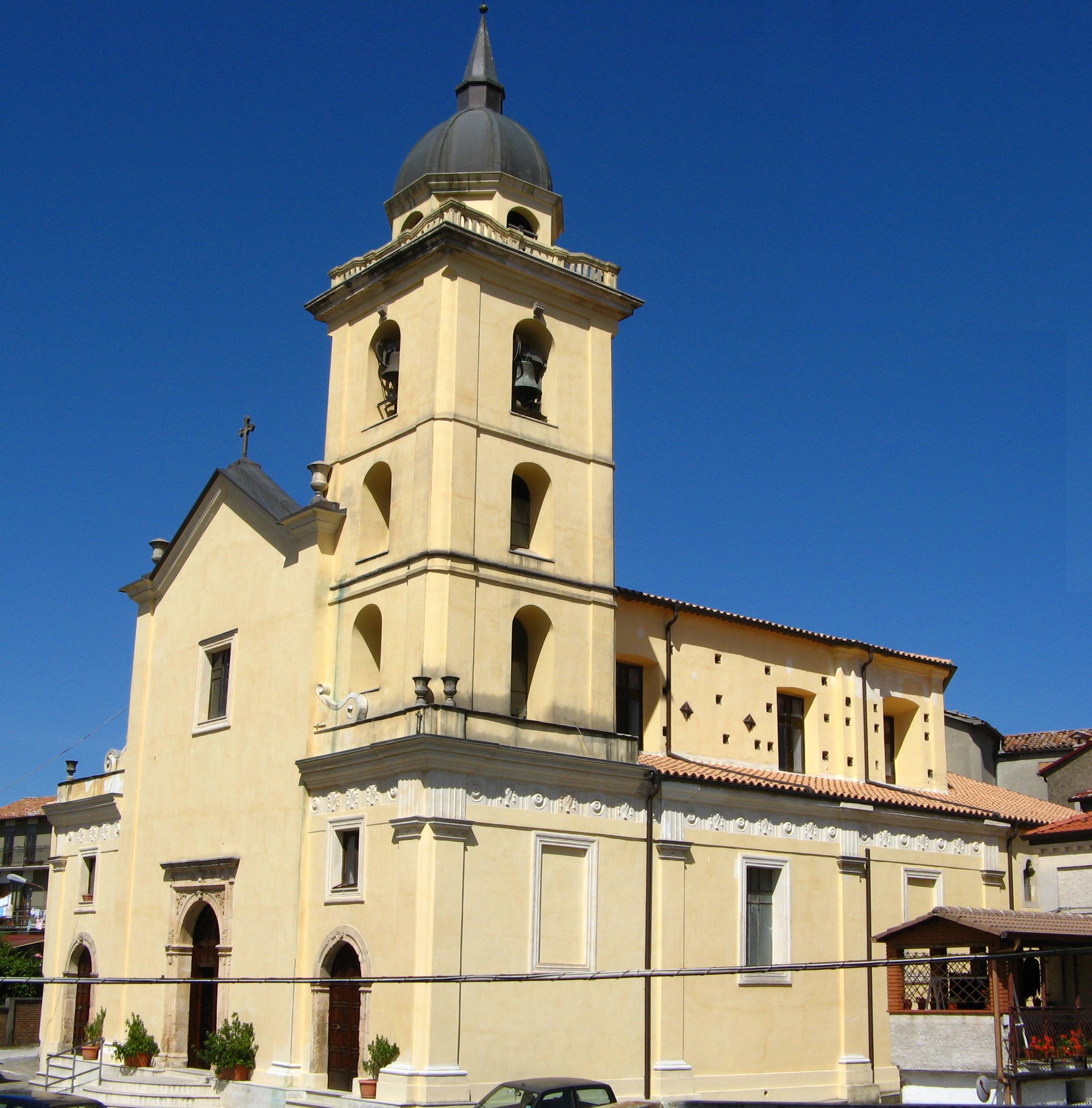 St John the Baptist's Church, Soveria Mannelli